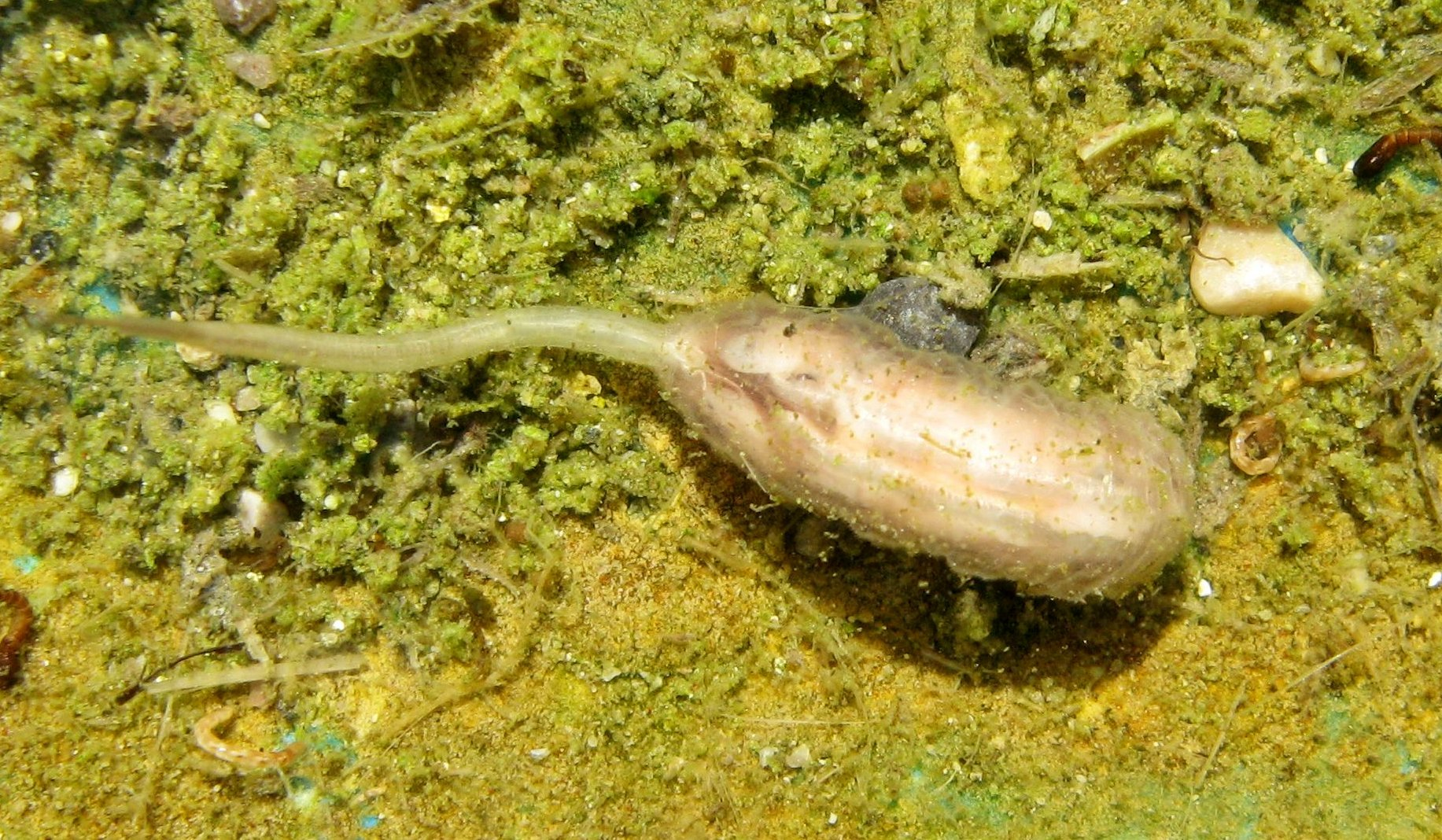 So-called rattail-maggot, a larva of a hoverfly from the Tribe Eristalini, most probably from the genus Eristalis or Helophilus. These larvae can be found in great number in putrefied or stagnant water and also in wet excrements. The "tail" is a contractable snorkel with variable length.